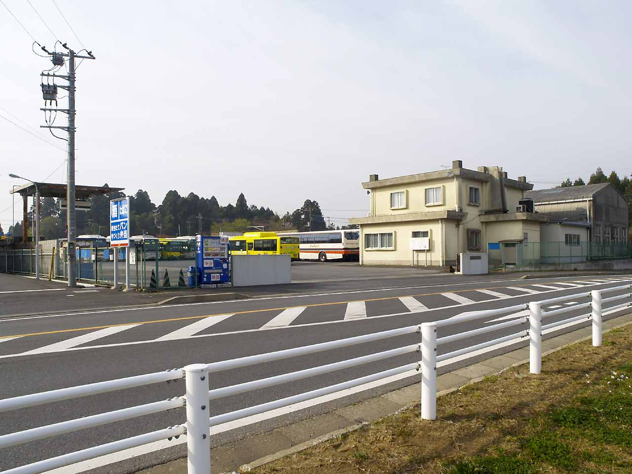 Bus depots of Narita Airport Transport, located at neighbour of Narita International Airport.